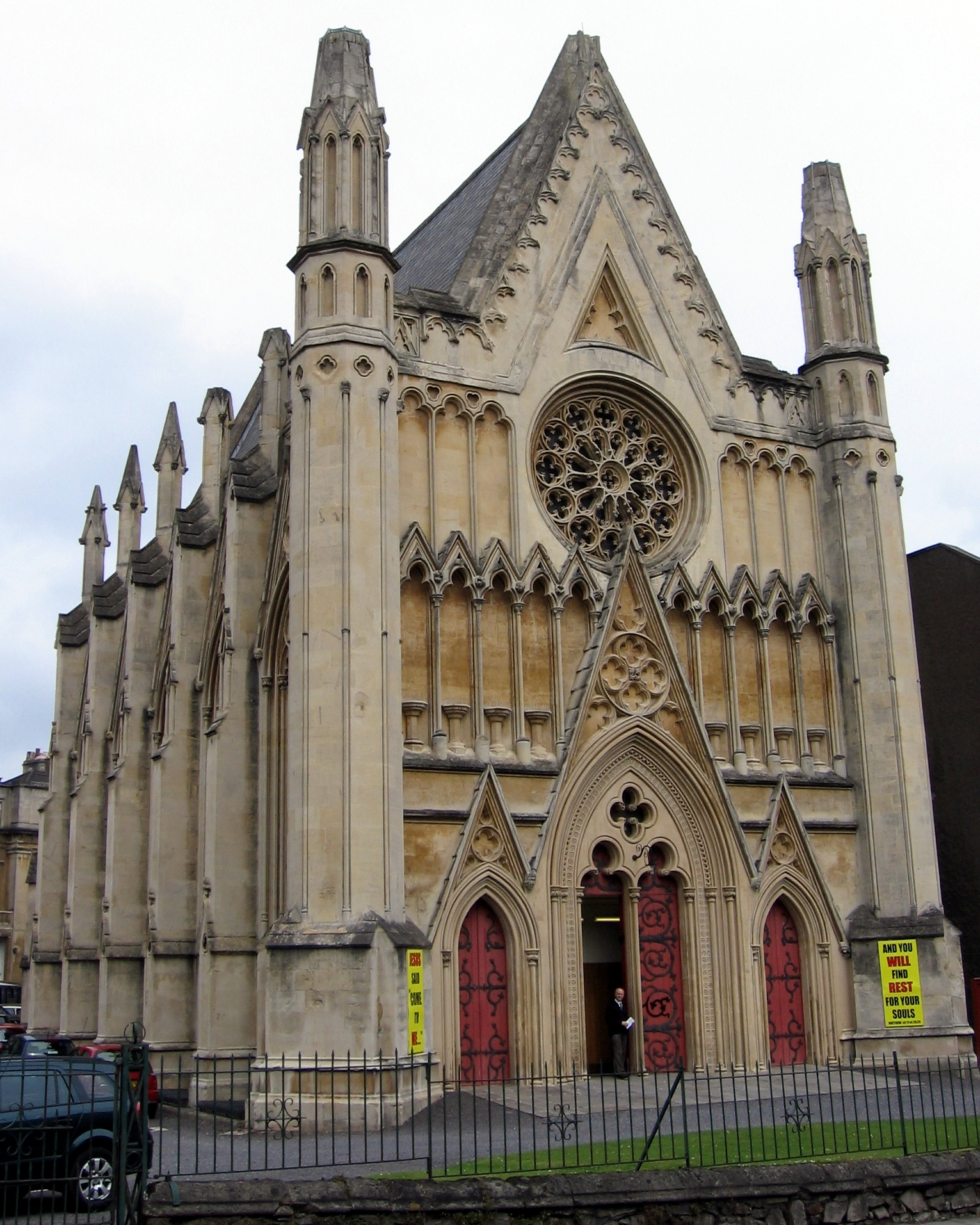 Buckingham Baptist Chapel, Bristol, UK. By Richard Shackleton Pope. Listed Grade II* listed.[1]